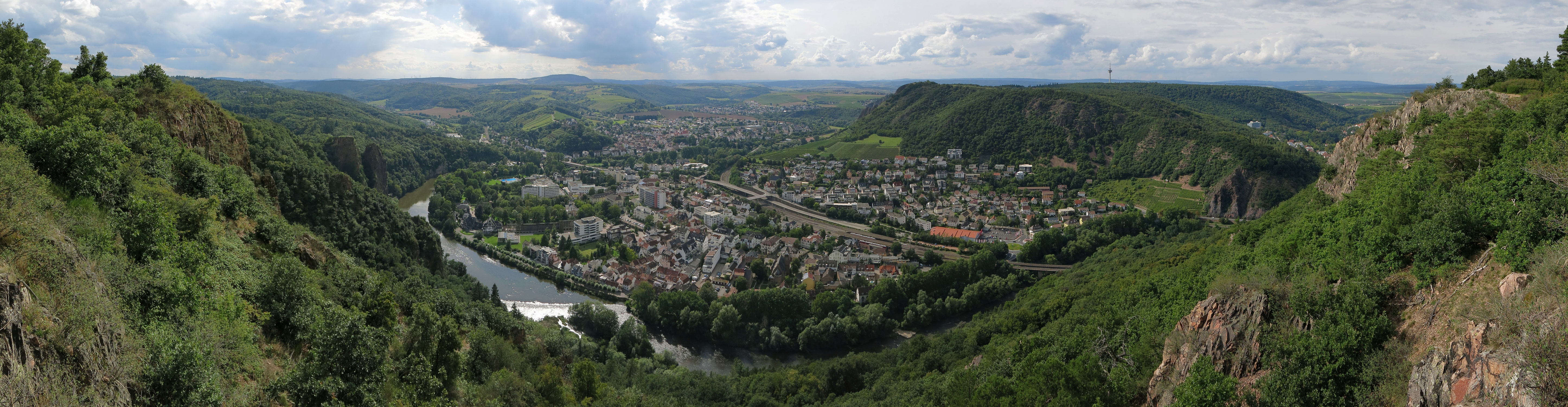 View from the Gans-Mountain (321 m) down to Bad Münster am Stein in the Nahe valley. Horizontal angle: 225°, viewing direction: west in the middle of the image.